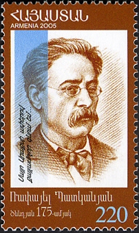 Stamp of Armenia